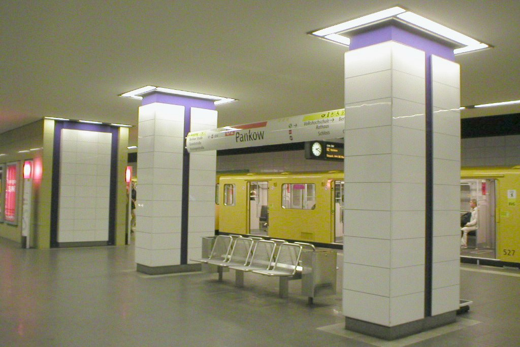 U-Bahn Berlin, station Pankow (line U2), August 30 2004 by Jcornelius